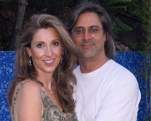 Photo Provided by Karen James